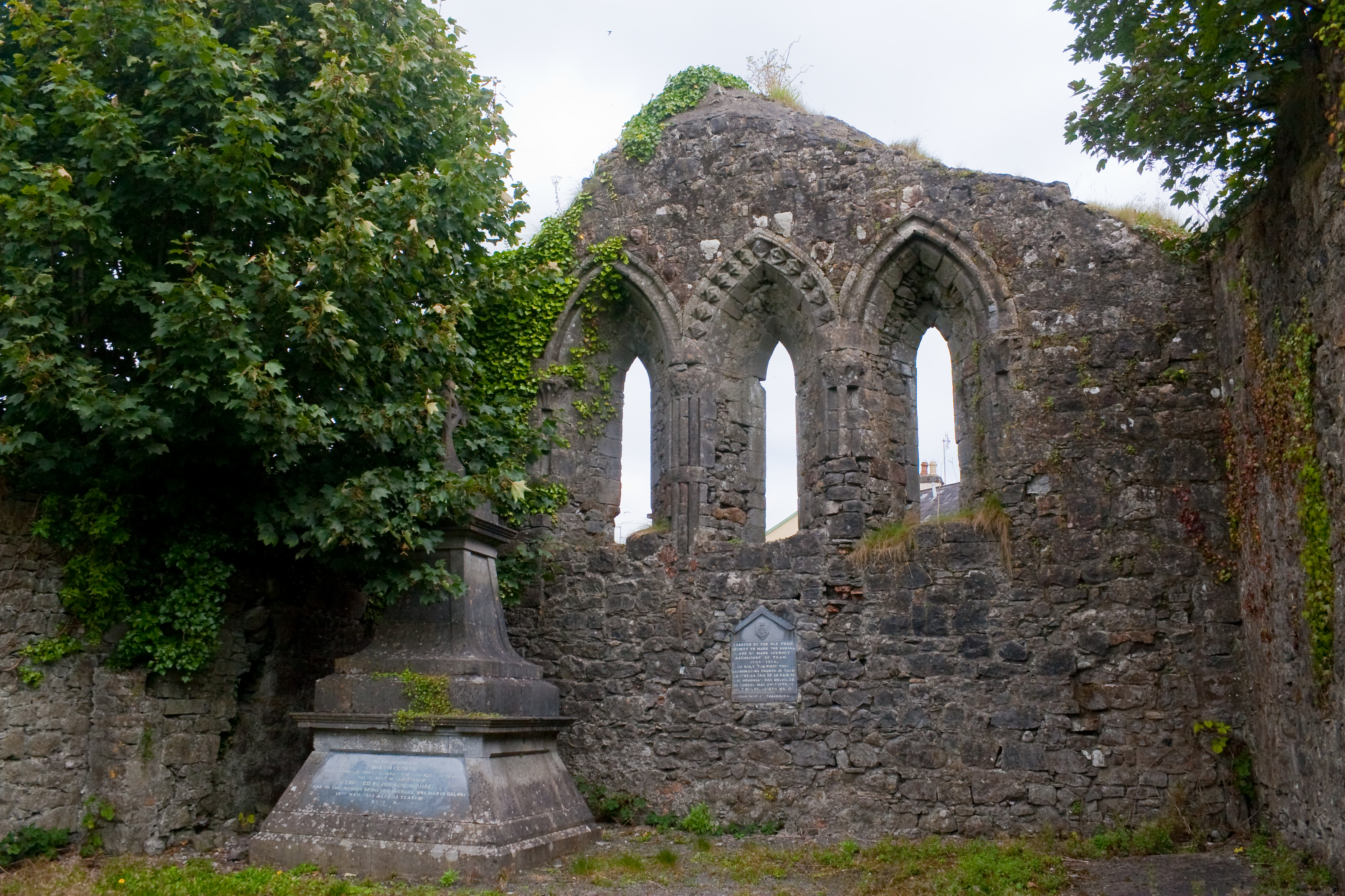 Tuam, County Galway, Ireland East window of Teampall Jarlath, a 13th-century parish church dedicated to St. Jarlath.